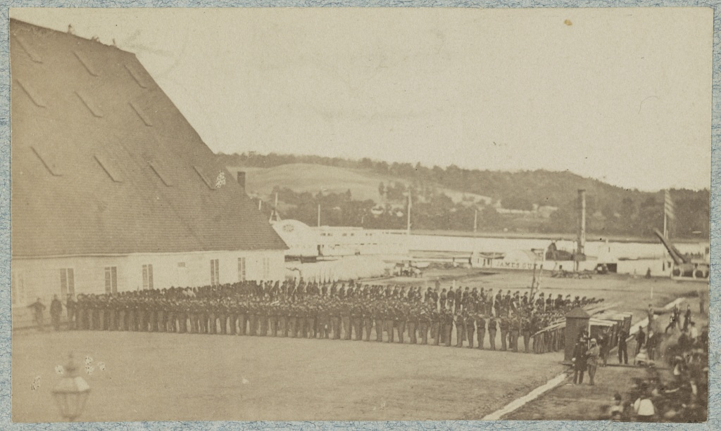 71st New York State Militia at Washington Navy Yard